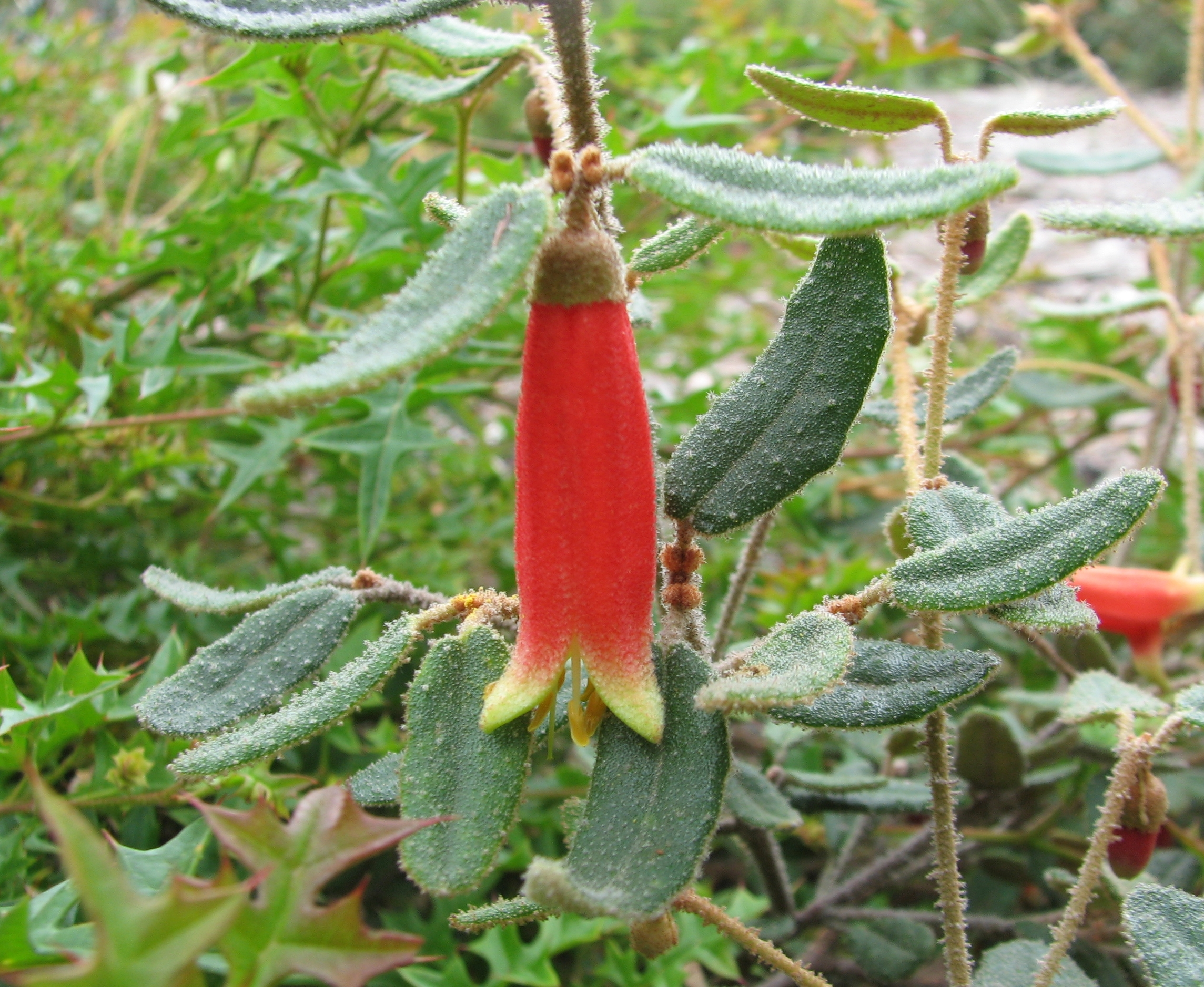 Correa reflexa var. angustifolia (cultivated, labelled) , Royal Botanic Gardens Melbourne, Australia